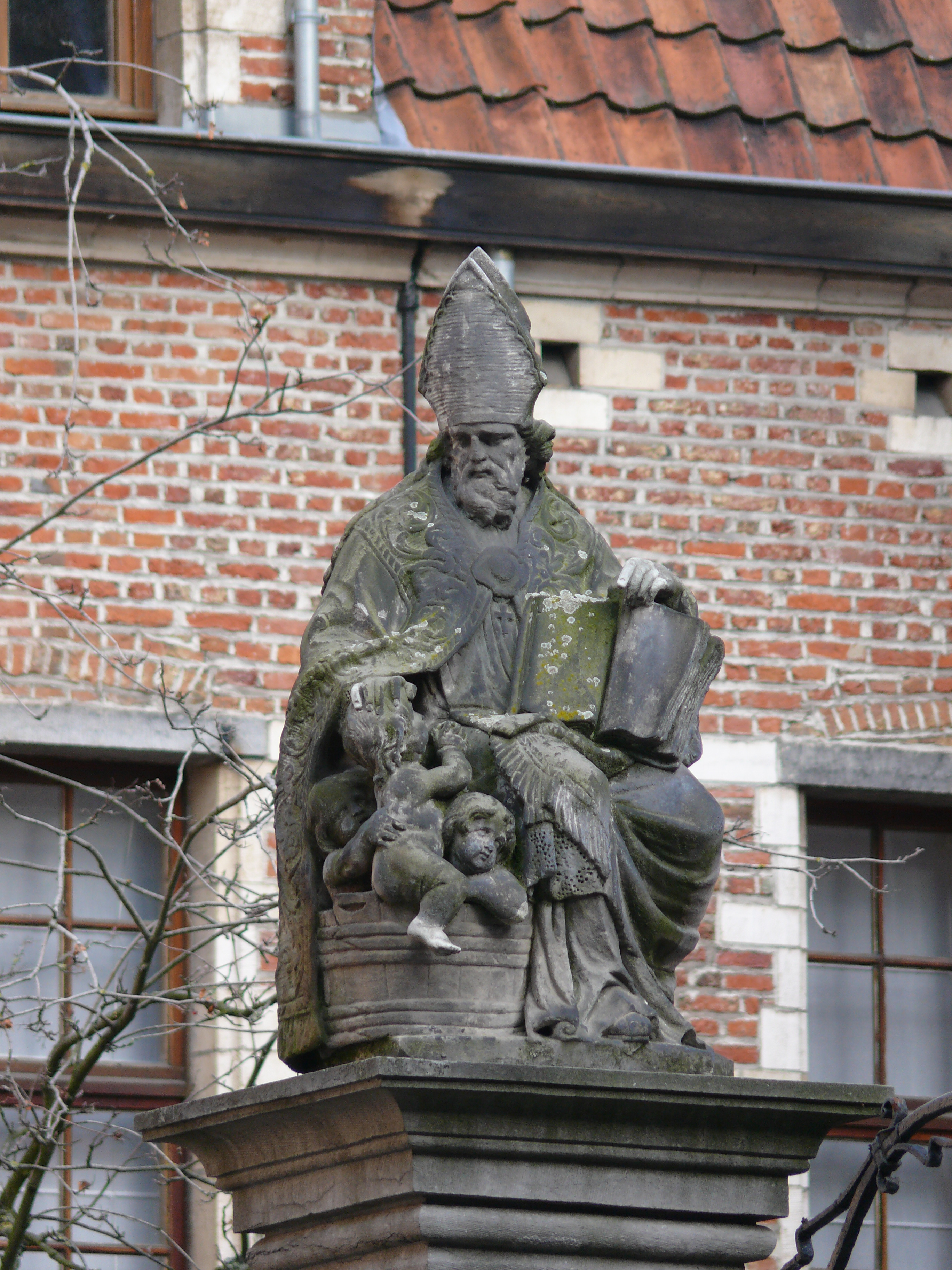 Statue of Saint Nicholas (Sinterklaas) at the St-Nicolaasplaats in Antwerp. The statue was erected in 1707. The statue recounts the legend how a terrible famine struck a Greek island and a malicious butcher lured three little children into his house, where he slaughtered and butchered them, placing their remains in a barrel to cure, planning to sell them off as ham. Saint Nicholas, visiting the region to care for the hungry, not only saw through the butcher's horrific crime but also resurrected the three boys from the barrel by his prayers.